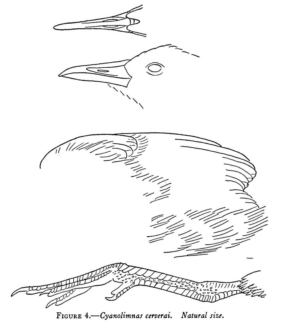 Zapata Rail (Cyanolimnas cerverai): bill, head, wing and leg